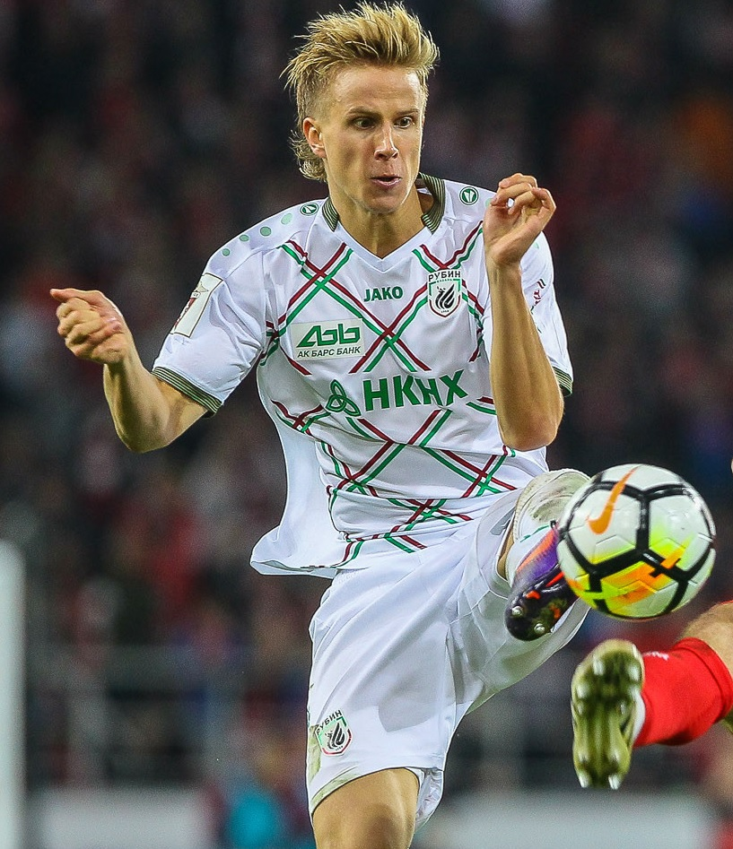 Moritz Bauer with FC Rubin Kazan in a game against FC Spartak Moscow.